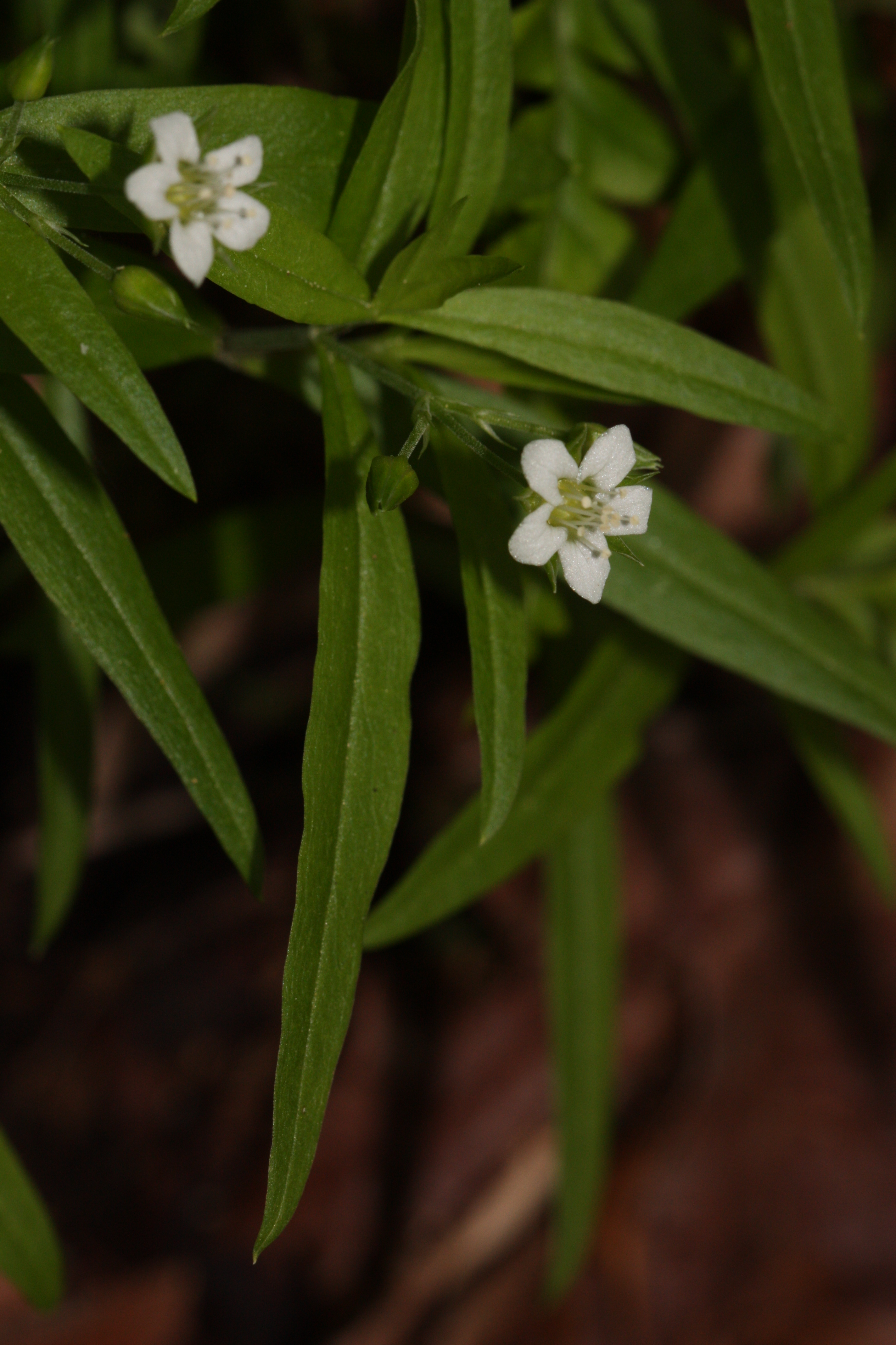 Large-leaf Sandwort